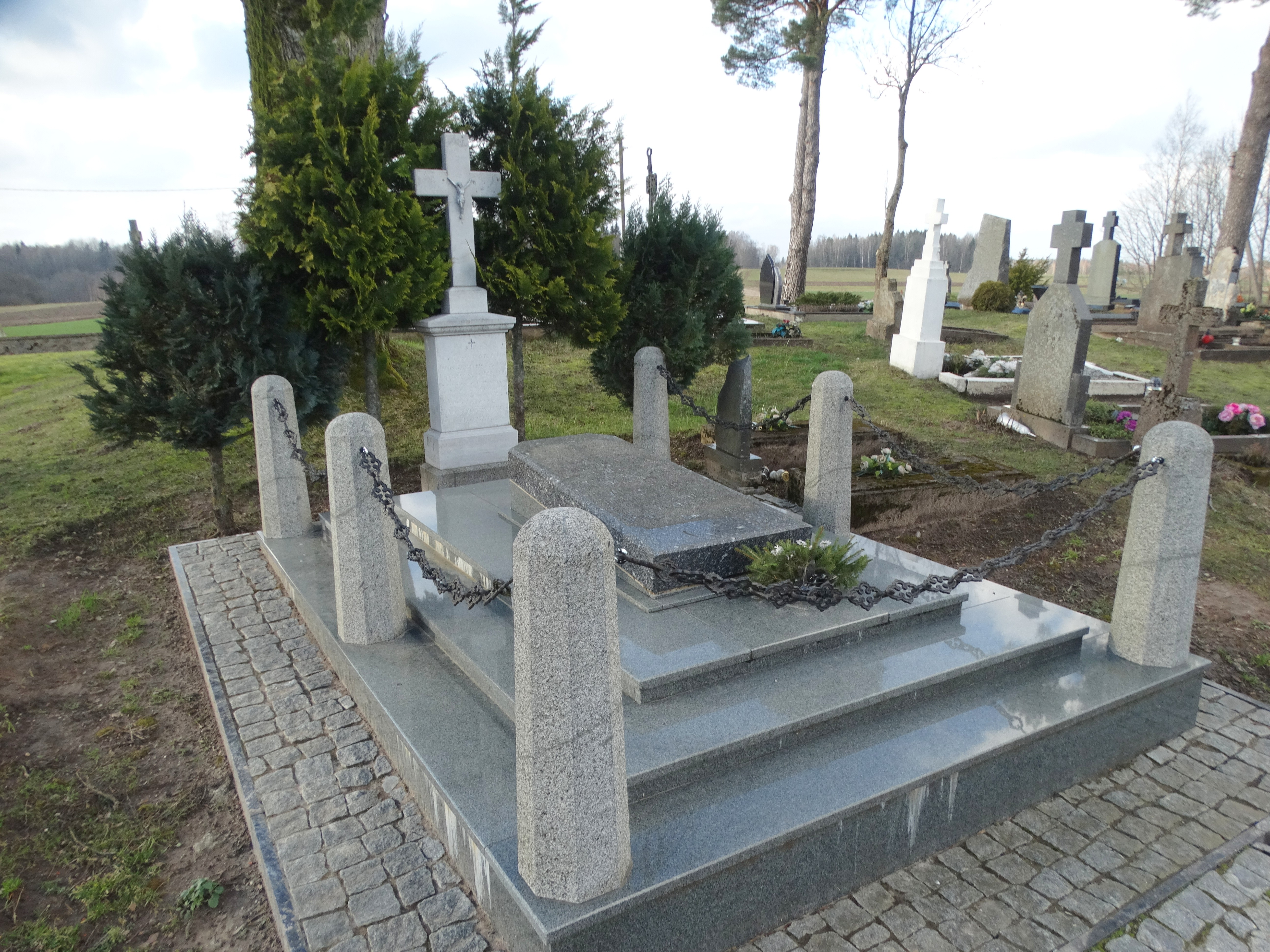 Judrėnai cemetery, grave of parents of Steponas Darius, Šakėnai, Klaipėda District. Lithuania